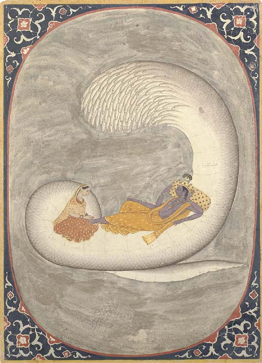 An old Indian painting of Lord Vishnu resting on Ananta-Sesha, with Lakshmi massaging His feet.